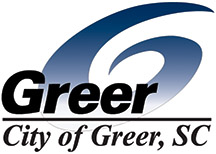 The official mark for the City of Greer, SC